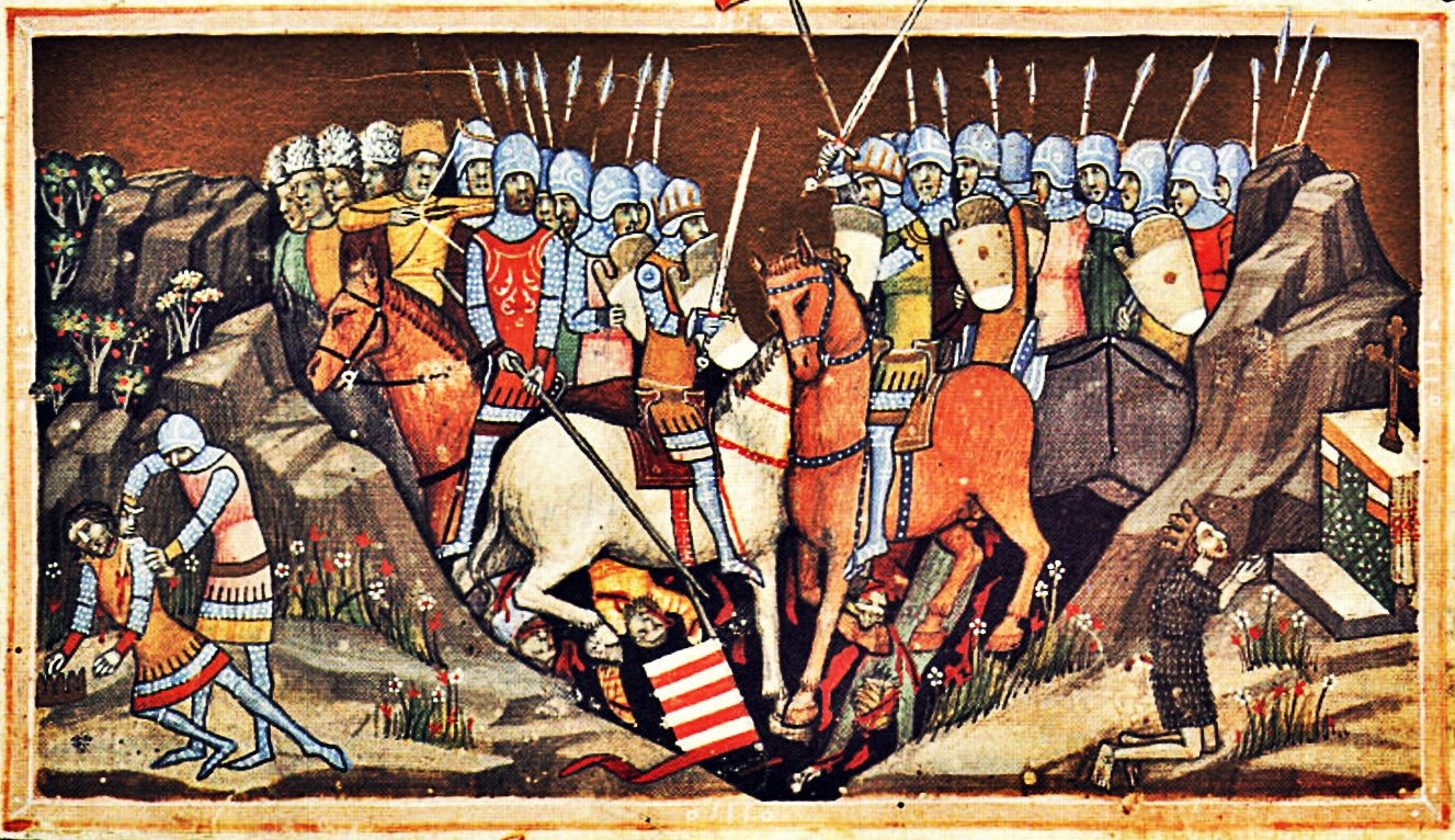 Battle of Ménfő and the murder of Samuel